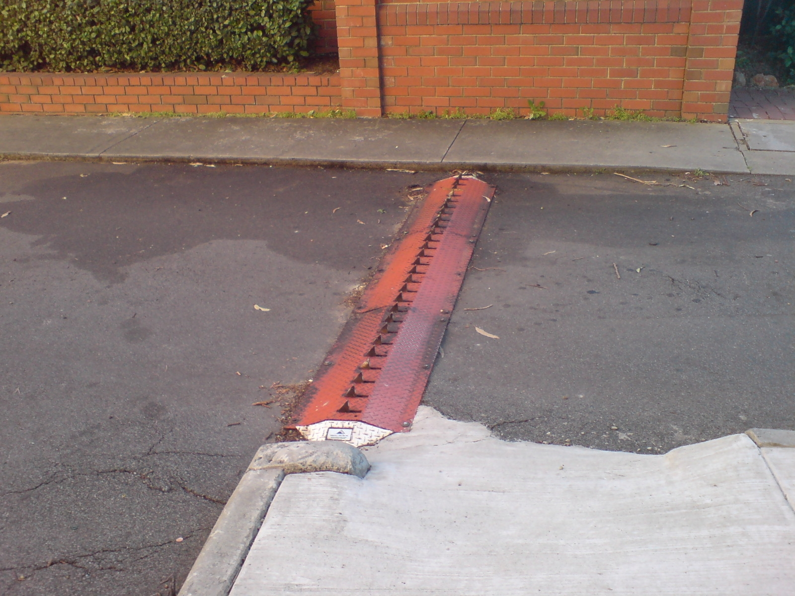 A one-way roadblock / traffic spikes at an apartment complex in Perth, Australia.